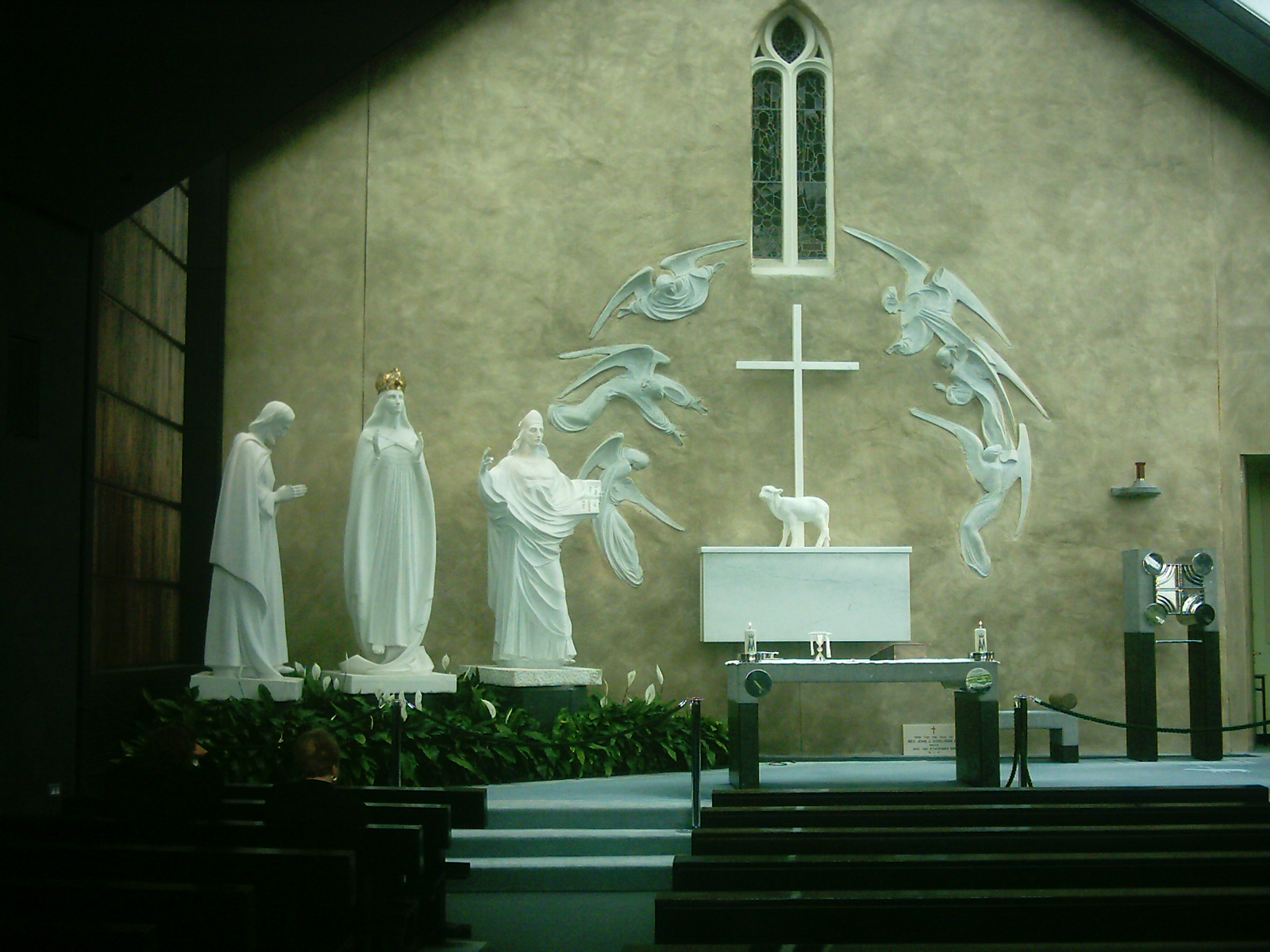 self made, taken on 3.8.2005